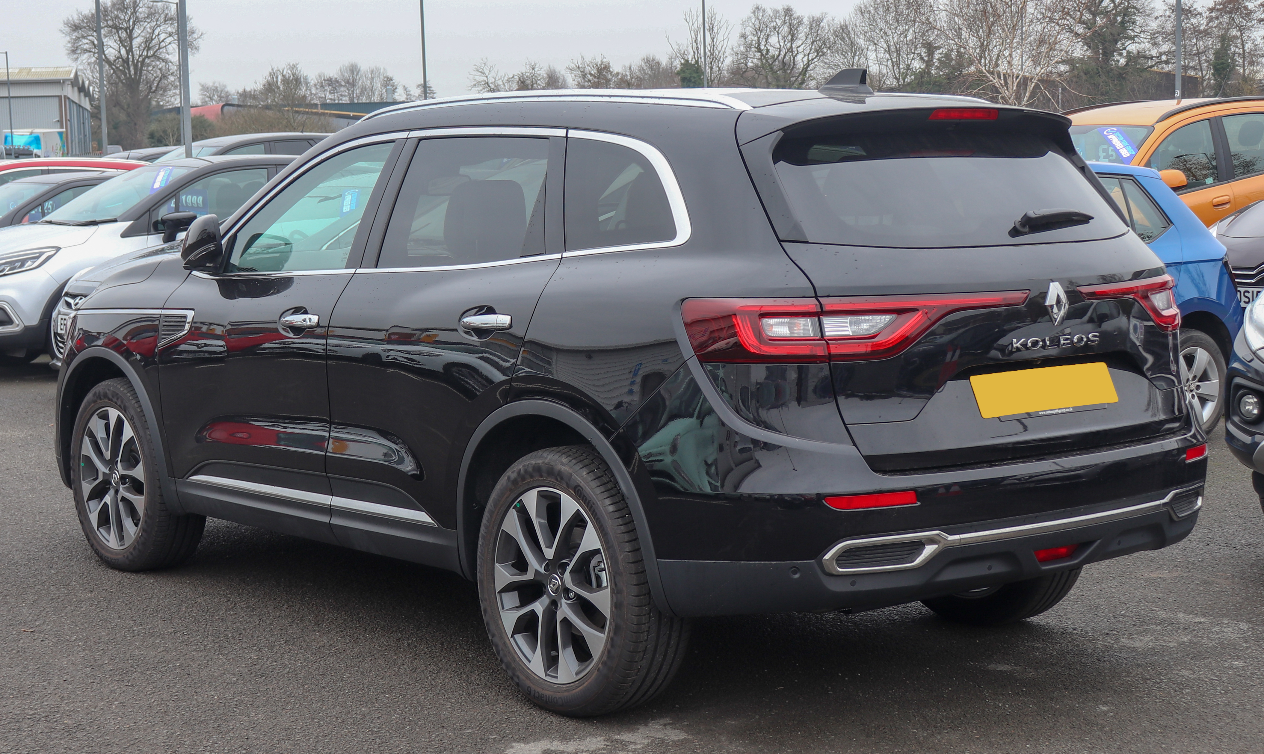 2019 Renault Koleos GT Line Rear Taken in Leamington Spa